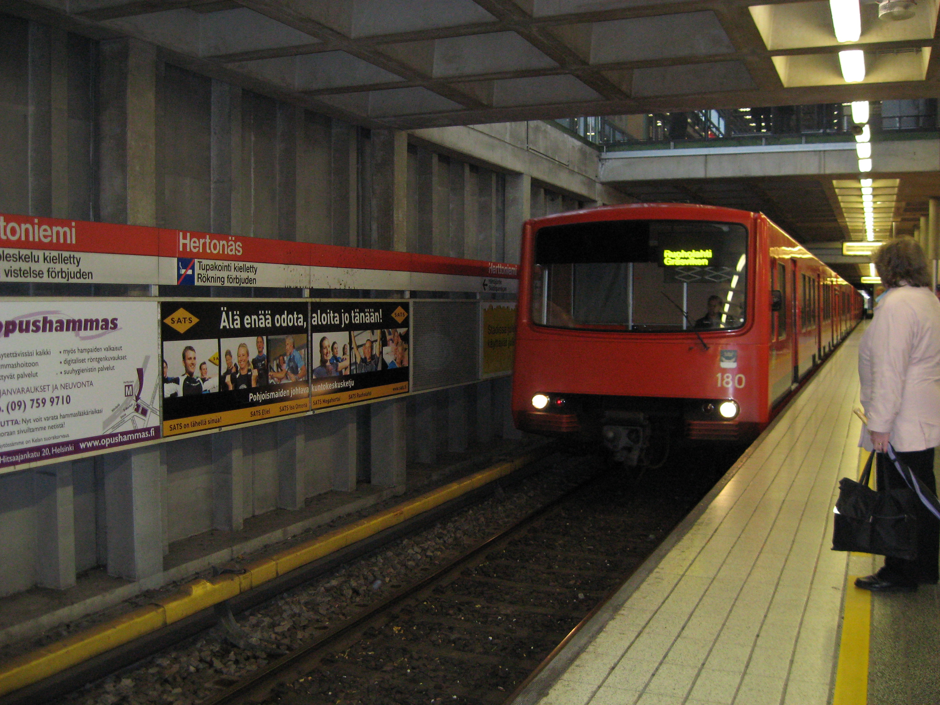 Metro train in Herttoniemi station